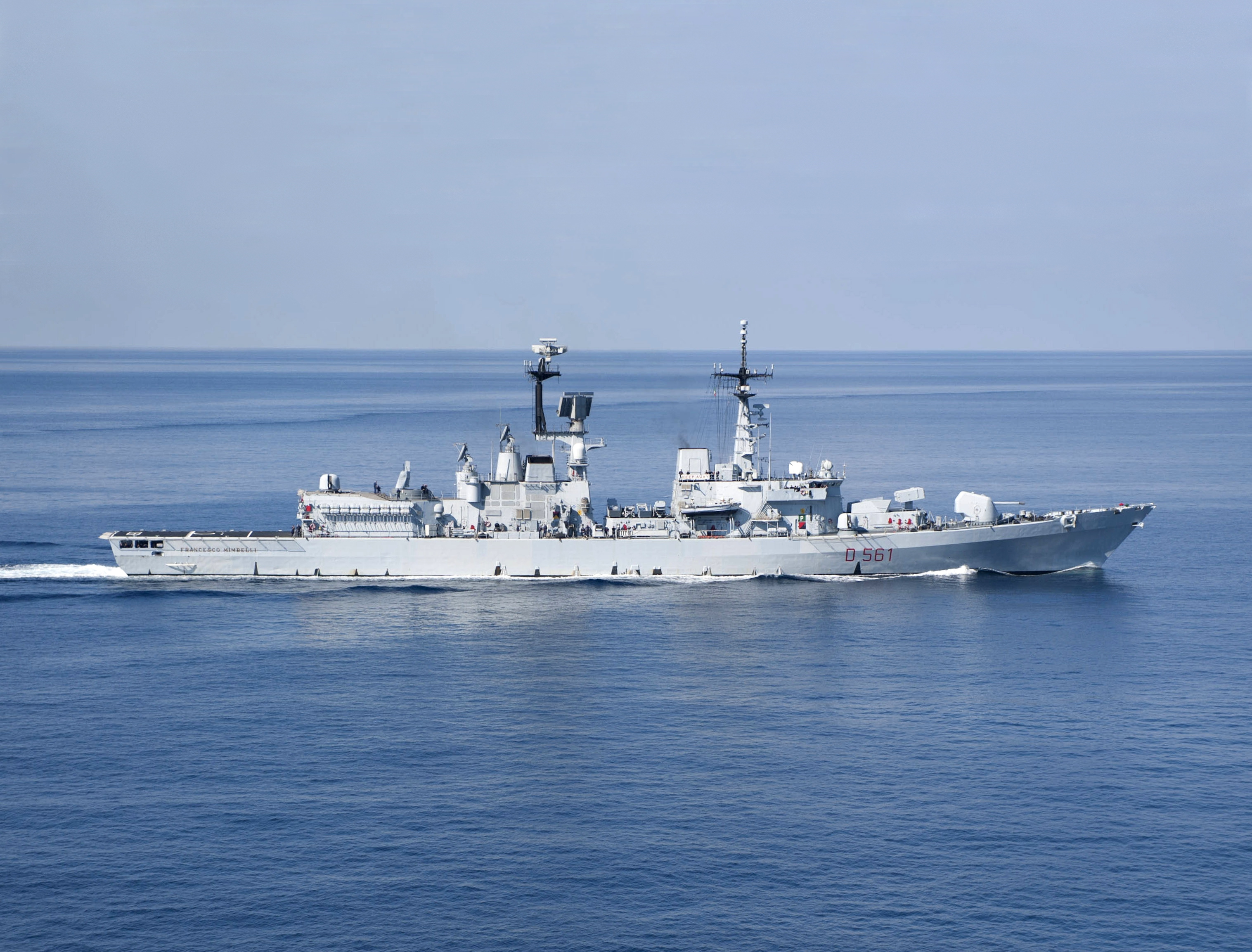 The Italian destroyer Francesco Mimbelli (D 561) underway during operations with the U.S. Navy aircraft carrier USS Nimitz (CVN-68), not visible, in the Mediterranean Sea.